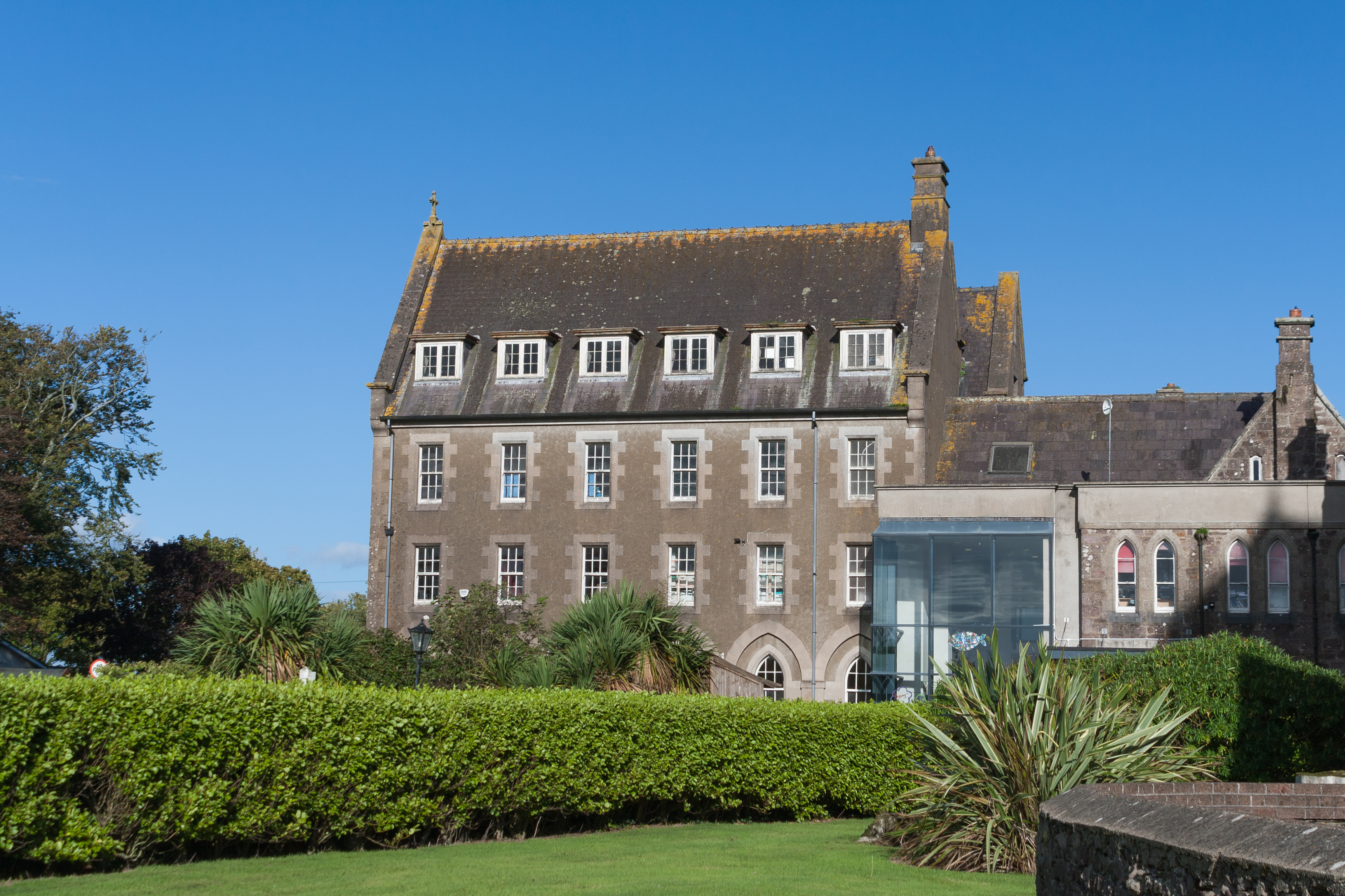 Dormitory of St. Louis' Convent of the Sisters of St. Louis, built in 1912. The convent was founded on 25 June 1871 from Monaghan through the initiative of the parish priest Thomas Doyle. Since 1992 used as head office of the South West Wexford Community Development Group.